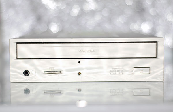 An old 4× CD-ROM Drive.